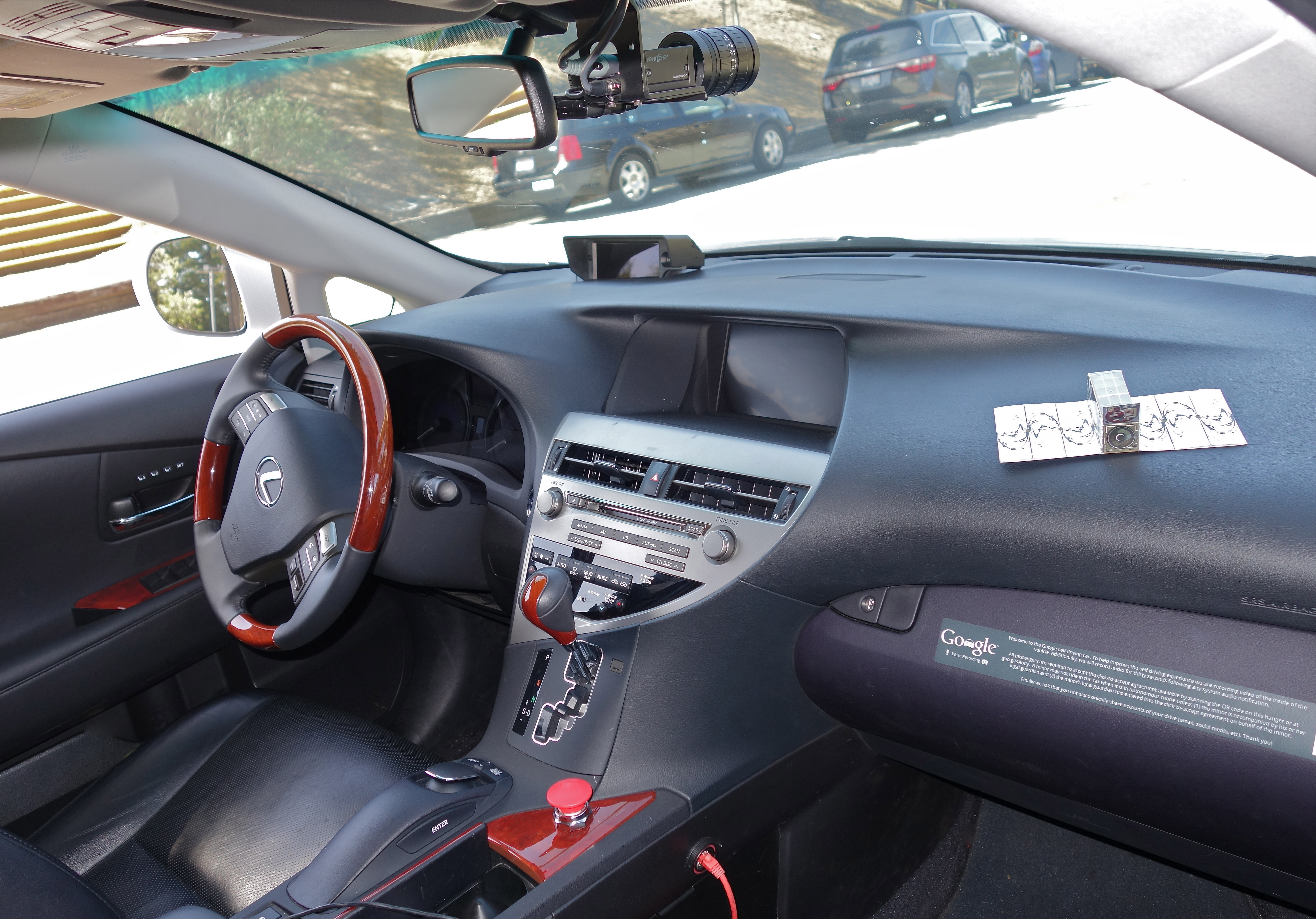 Interior of a Google driverless car